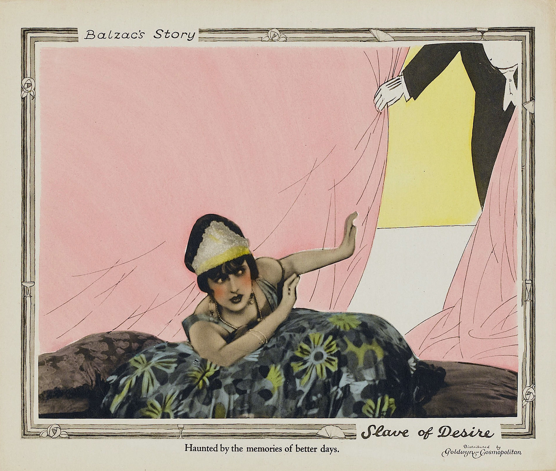 Lobby card for the American drama film Slave of Desire (1923).